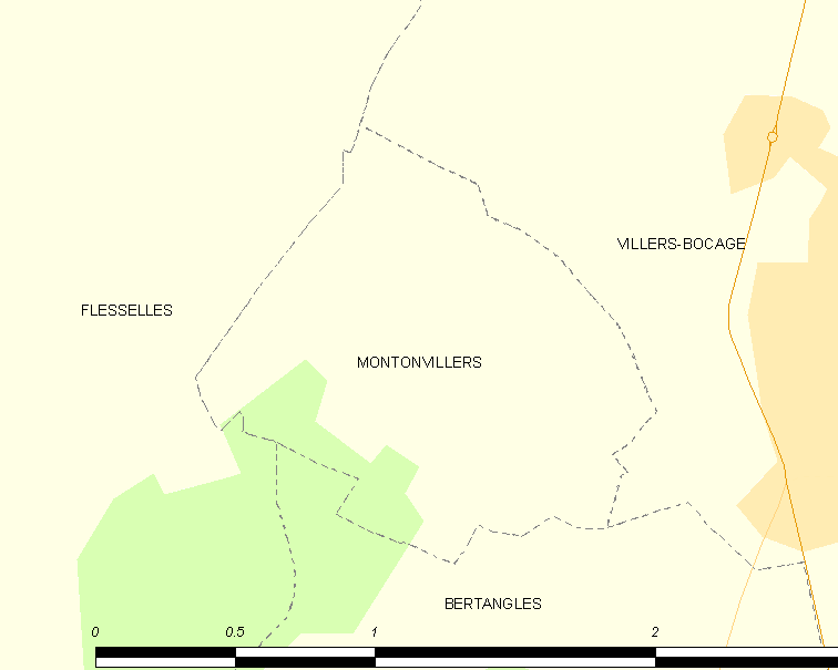 Map of French municipality Montonvillers